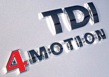 only logo used in cars with both tdi and 4motion 2005 to 2009